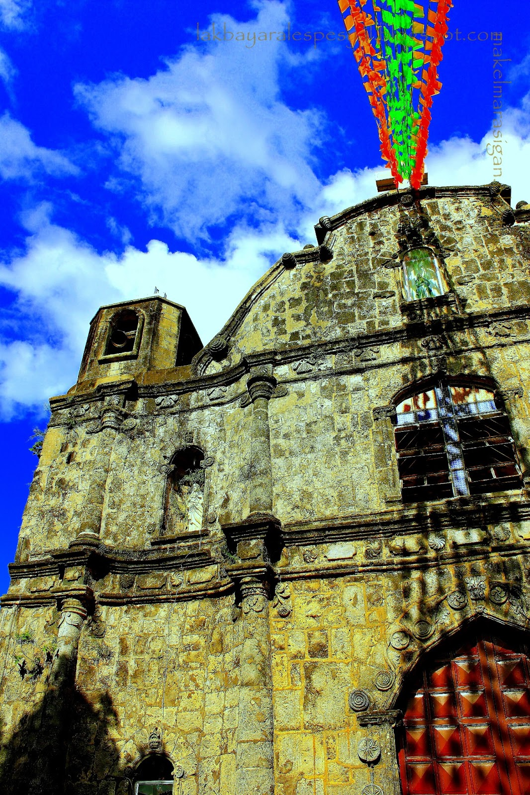 Coral stone blocks make up this edifice which was erected 1854. Flanked by two small belfries, note the angel-like figures with wings in the second tier, and the wave swirls decorating the main portal. Scroll projections also adorn the pediment. A flight of stairs precedes the church. Located in Macalelon, Quezon